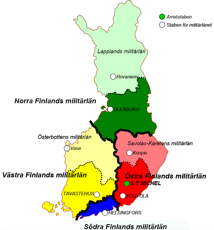 Finnish operative and territorial military provinces from the beginning of 2008